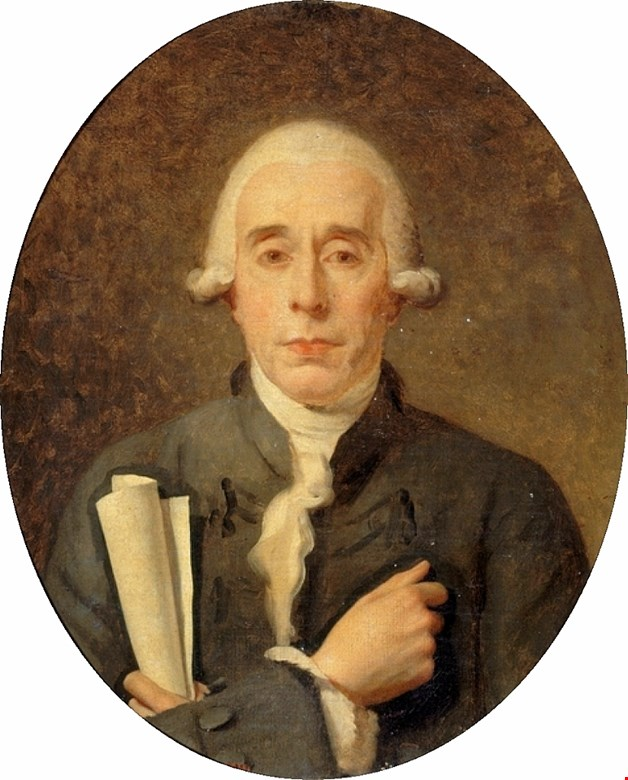 Jean-Sylvain Bailly, maire de Paris